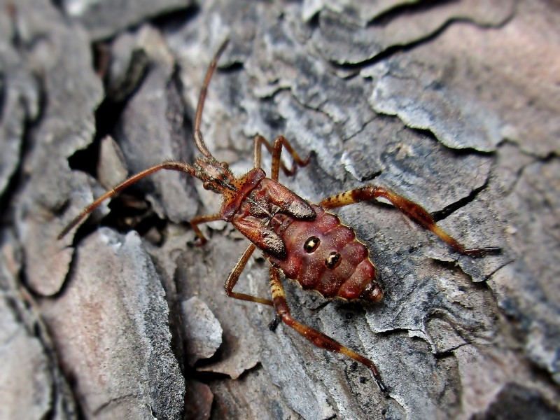 Leptoglossus occidentalis (Coreidae) (Western conifer seed bug (WCSB)) - (nymph), Molenhoek - NS-terrein, the Netherlands